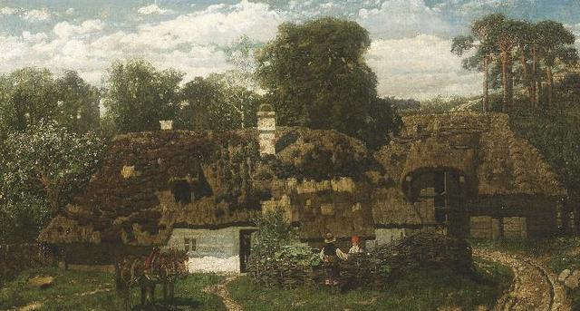 Ludomir Benedyktowicz, "Pejzaż wiejski", 1879, 54 x 100 cm